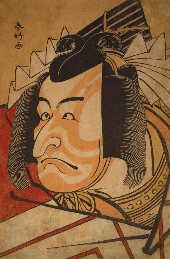 The actor Ichikawa Danjūrō V playing the hero role of the bombastic "Shibaraku" scene in a print made by Katsukawa Shunkō between 1788 and 1791.